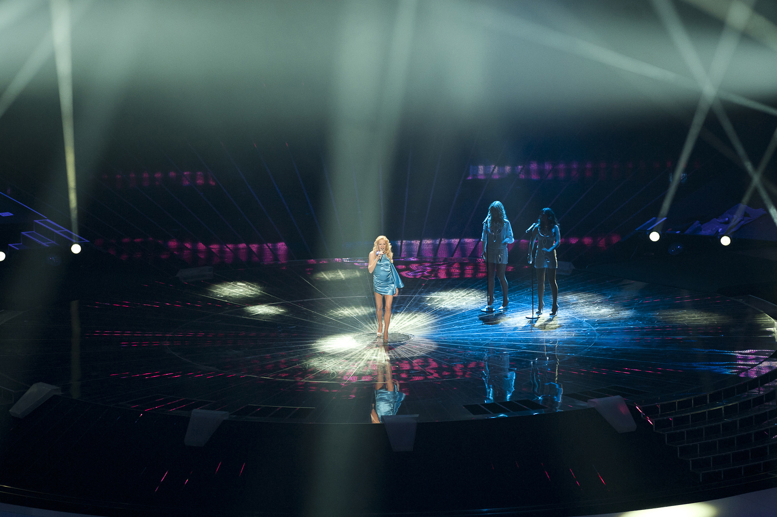 Kati Wolf from Hungary performing "What About My Dreams?" at Eurovision Song Contest 2011 in Düsseldorf